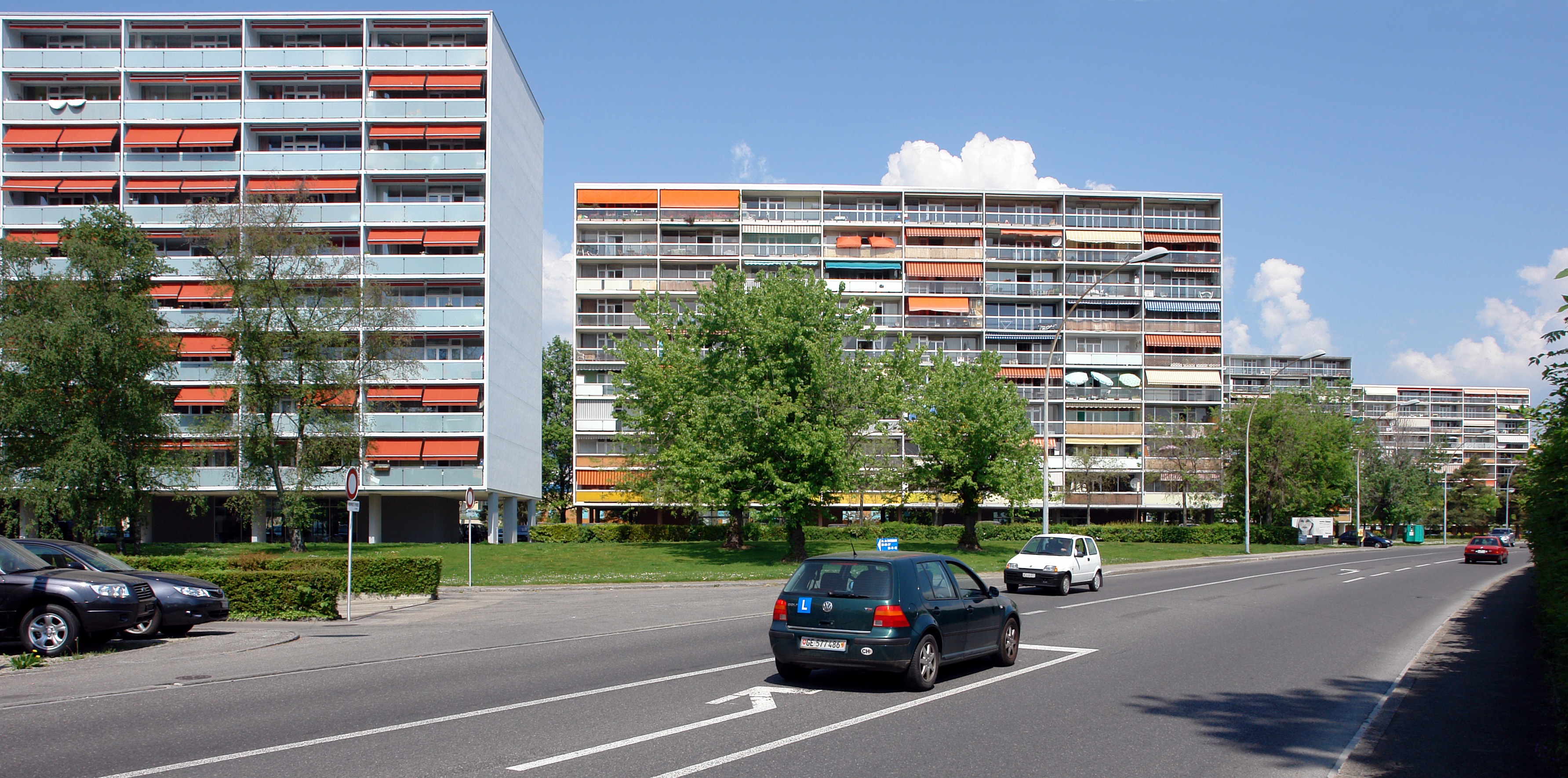 Cité Satellite de Meyrin, large housing estate, Meyrin, Geneva, 1960-63, Architect: Georges Addor